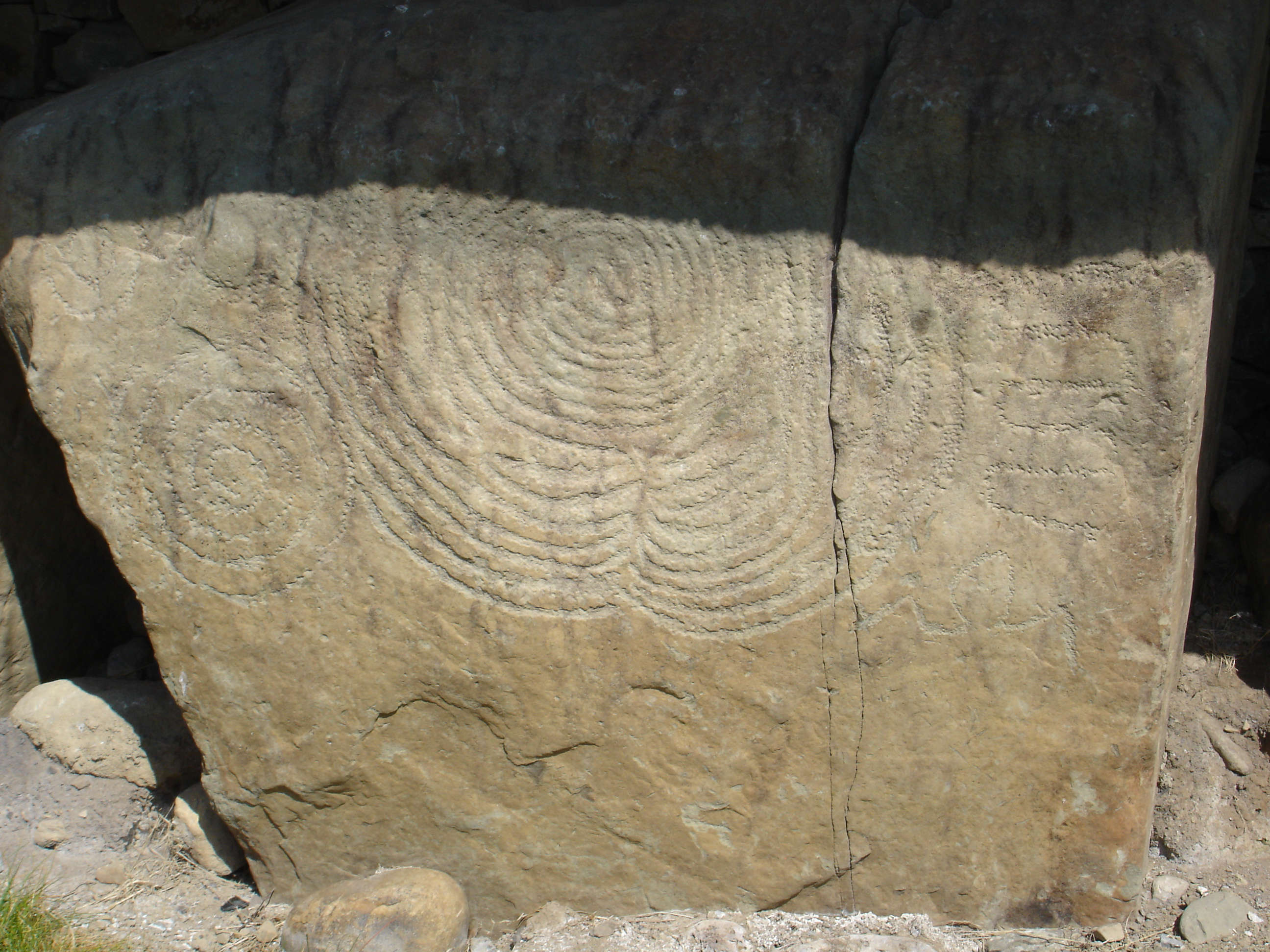 Kerbstone 51 Megalithic art at the Knowth burial site in Ireland